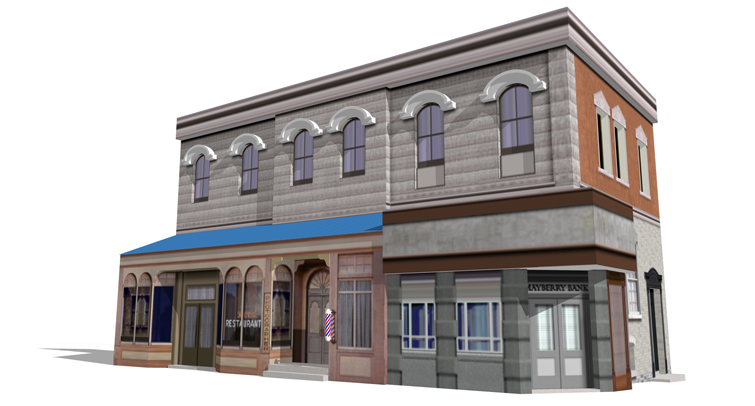 2D image, exported from a 3D model, of a building that once existed, until 1976, on the now demolished RKO Studios backlot called Forty Acres. Typical of most sets on a film backlot, this structure was ostensibly a facade only, with no practical roof or interior. The building was used as a film set and appeared on television's The Andy Griffith Show as the Mayberry Bank. It was first seen in the 1939 cinema classic Gone with the Wind as the National Hotel, in a dramatic scene that witnesses the Siege of Atlanta; and again in the 1949 film noir classic The Set-Up as the Ringside Cafe. It also appeared on Star Trek's episode of The City on the Edge of Forever, in which Dr. McCoy is seen walking in front of Walt's Restaurant before crossing to the 21st Street Mission situated on the north side of the street.